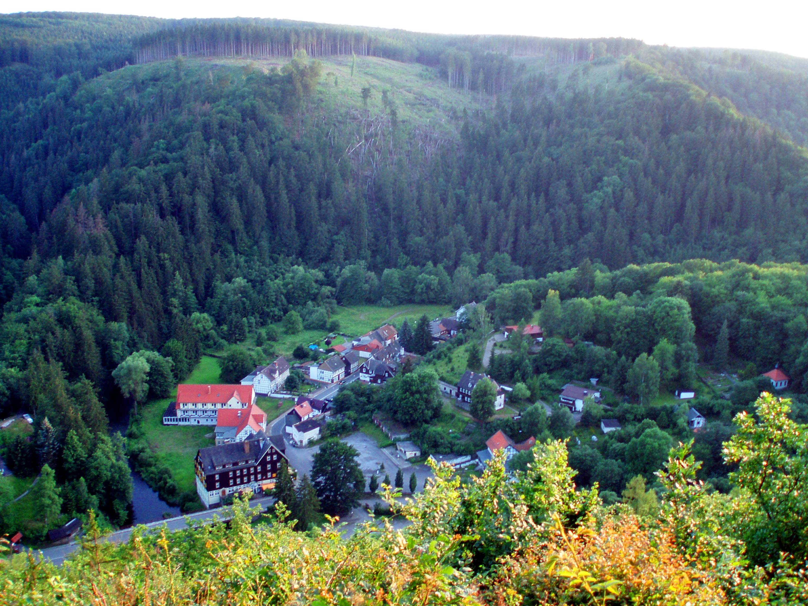 View of Treseburg from the path to the Weißer Hirsch. Harz mountains, Germany